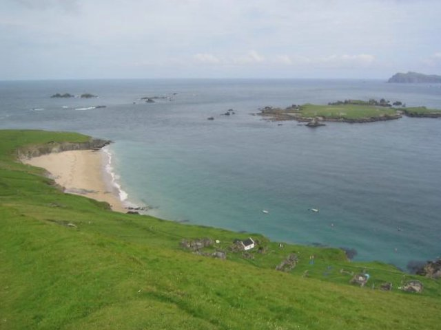 Beginish, Blasket Islands, county Kerry, Ireland